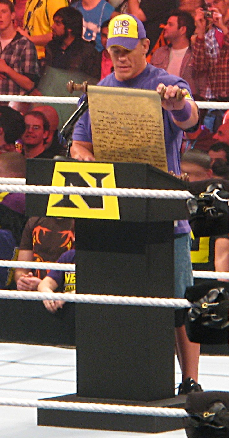 An image of John Cena reading a scroll while a member of the Nexus group, taken on 8 November, 2010.